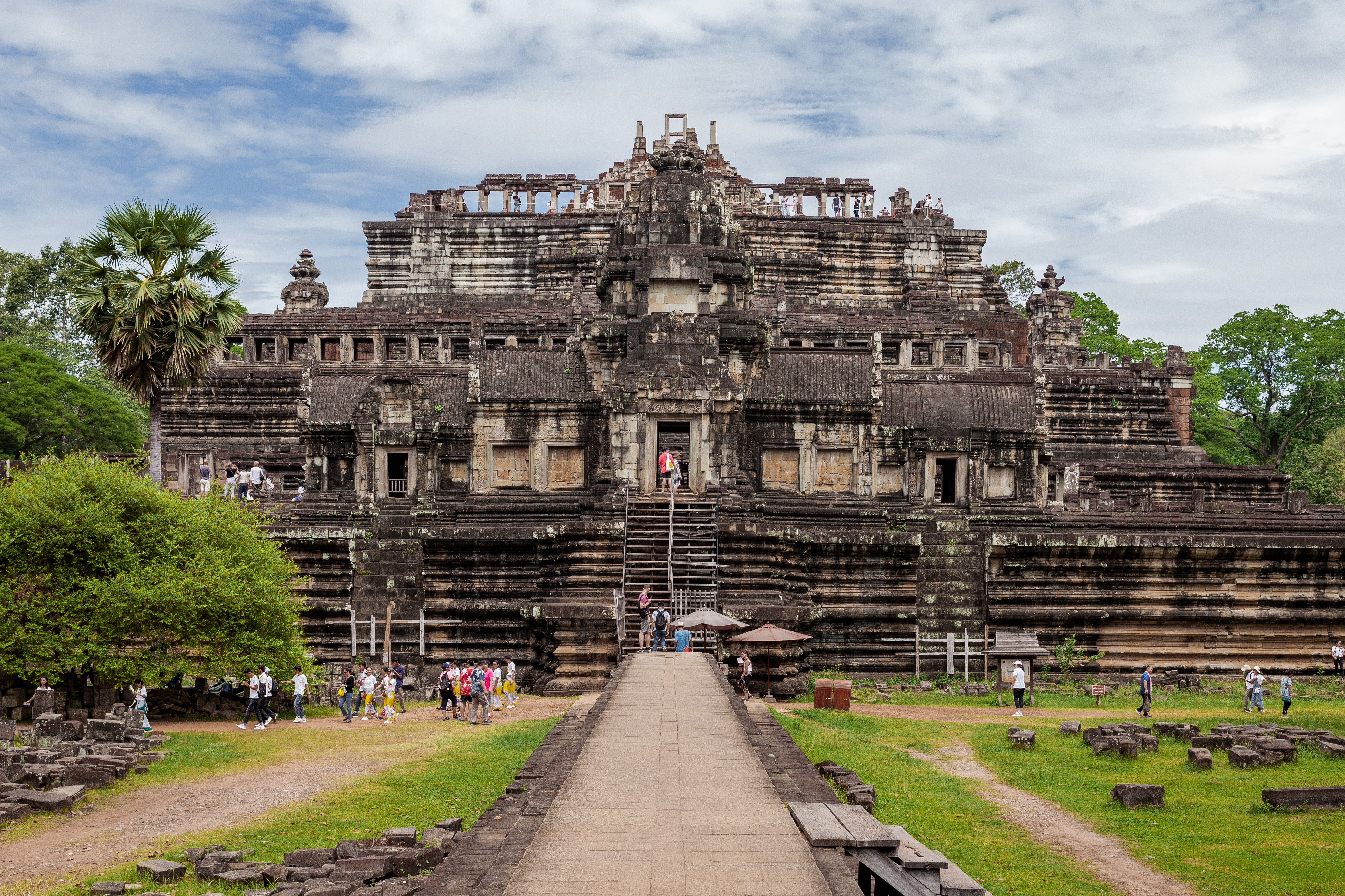 Baphuon. Angkor Thom, Siem Reap Province, Cambodia.